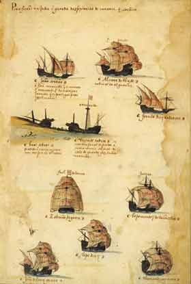 Depiction of the second squadron (led by Vicente Sodré) and third squadron (led by Estêvão da Gama) of the 4th Portuguese India Armada (1502) from the Livro das Armadas (Academia de Ciencias de Lisboa)